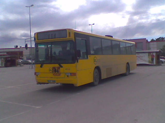 A Nobina Volvo B10M bus (#4550) in Uppsala, Sweden.